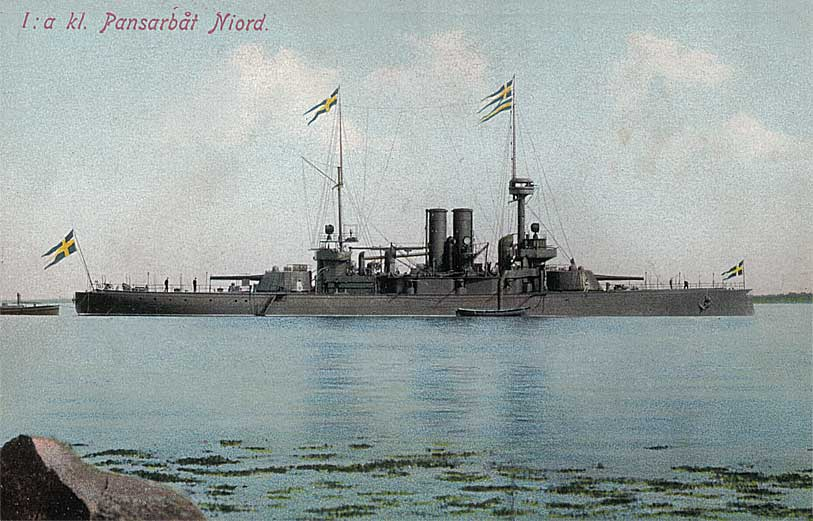 Picture of the Swedish battleship HMS Niord.